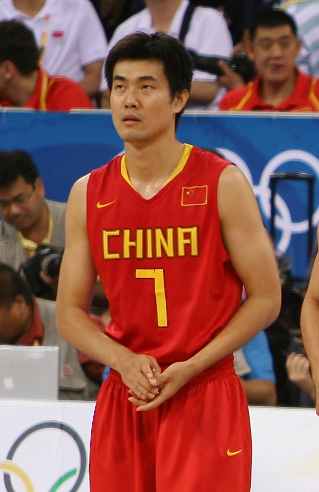 Team China - Men's Basketball - Beijing 2008 Olympics